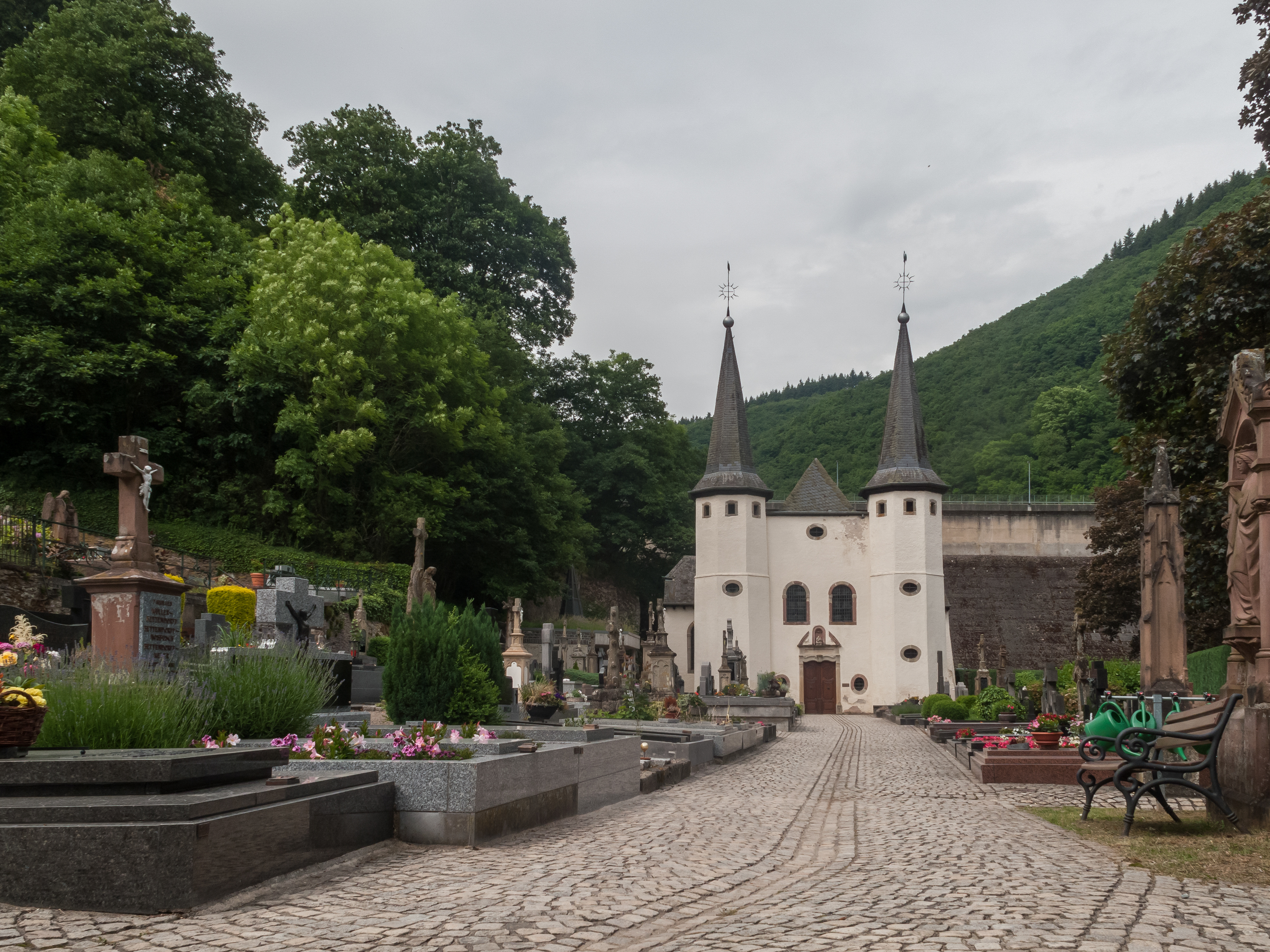 Vianden, church: die Neikiirch